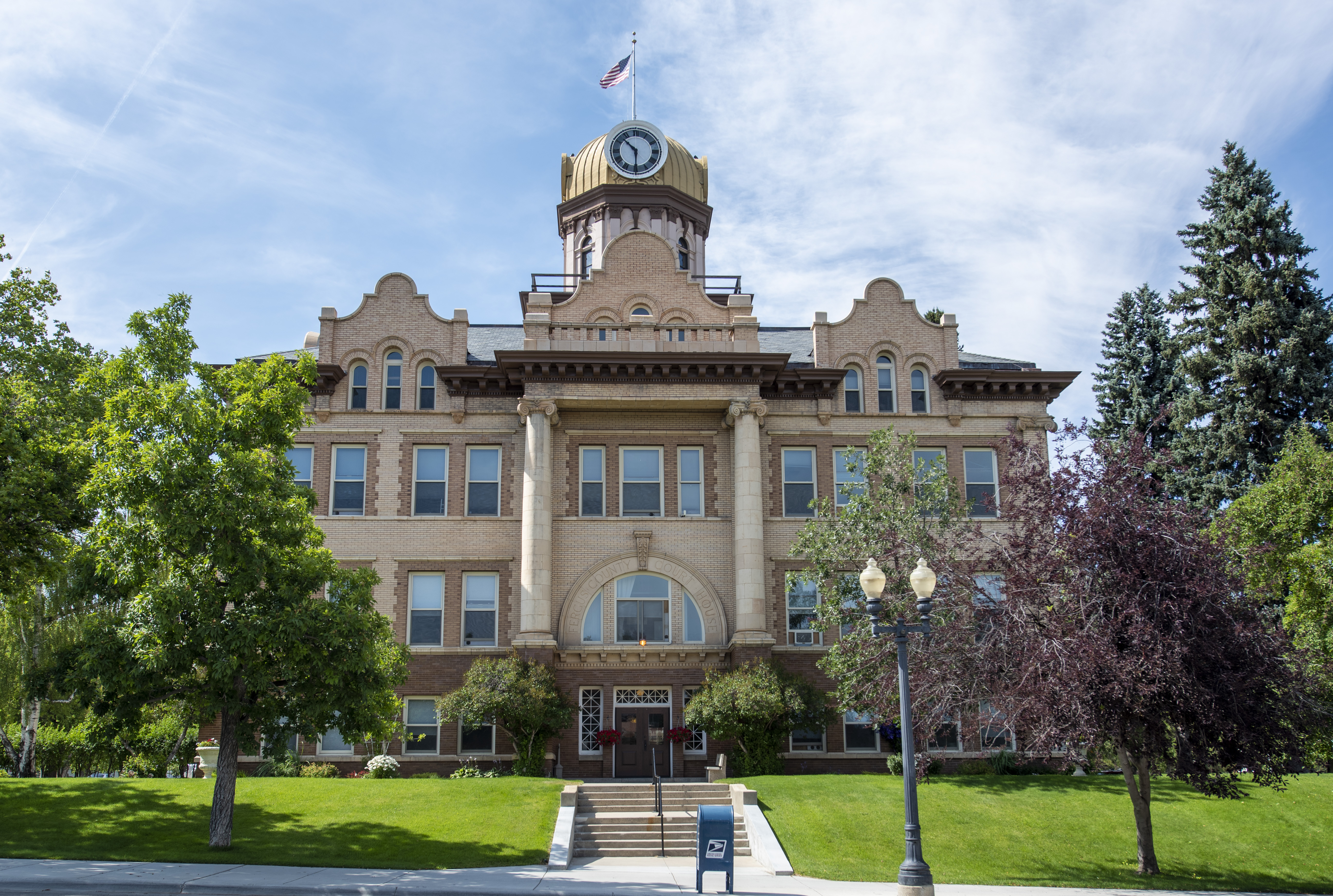 Photograph of the Fergus County Courthouse in Lewistown, Montana. Image taken in July 2020.